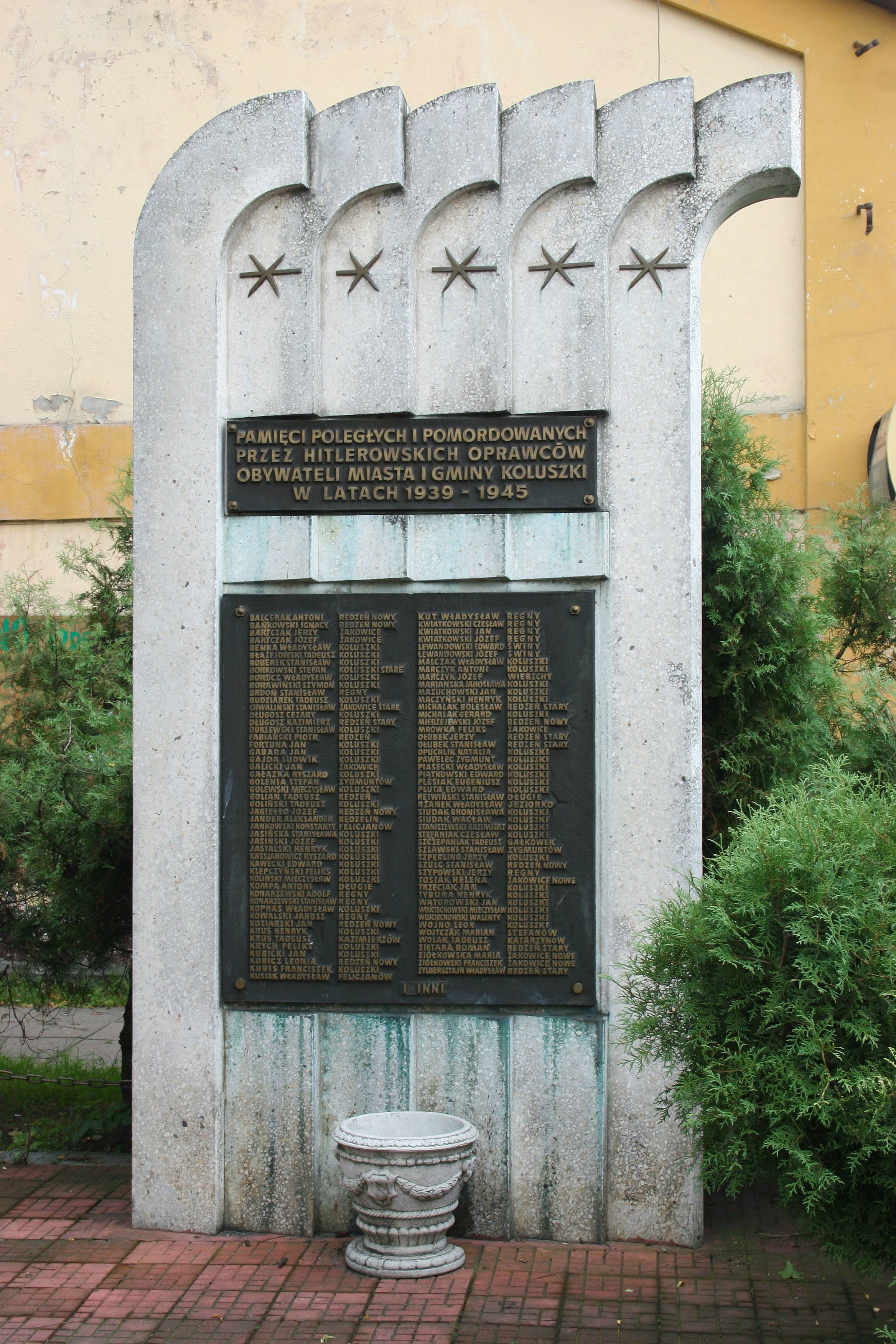 II World War monument in Koluszki